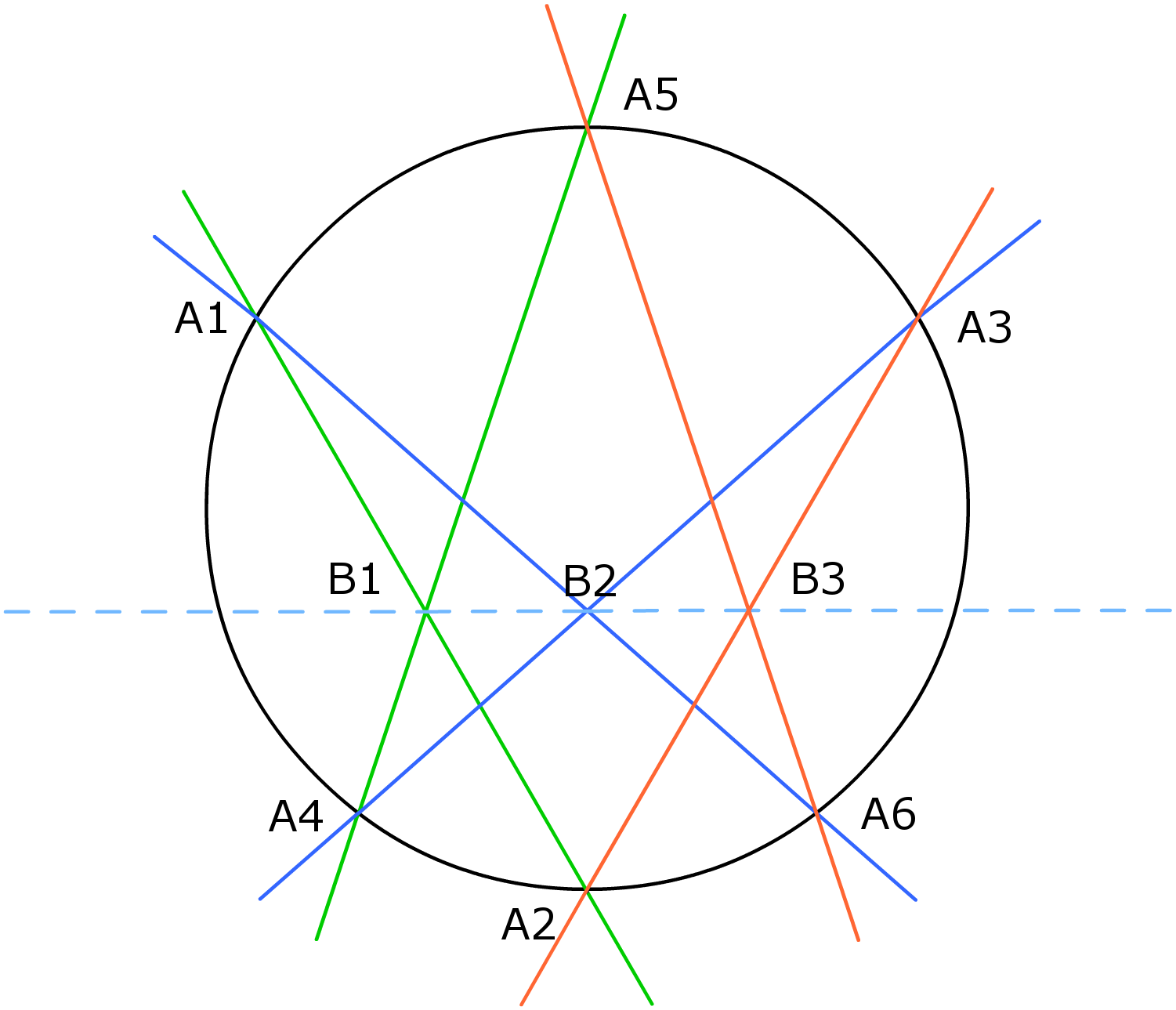 Illustration of Pascal's theorem (for circle)